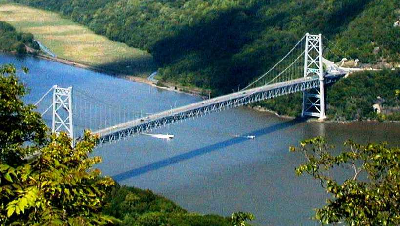 Bear Mountain Bridge from the top of Bear Mountain User:Mwanner took this photo on 6/6/99